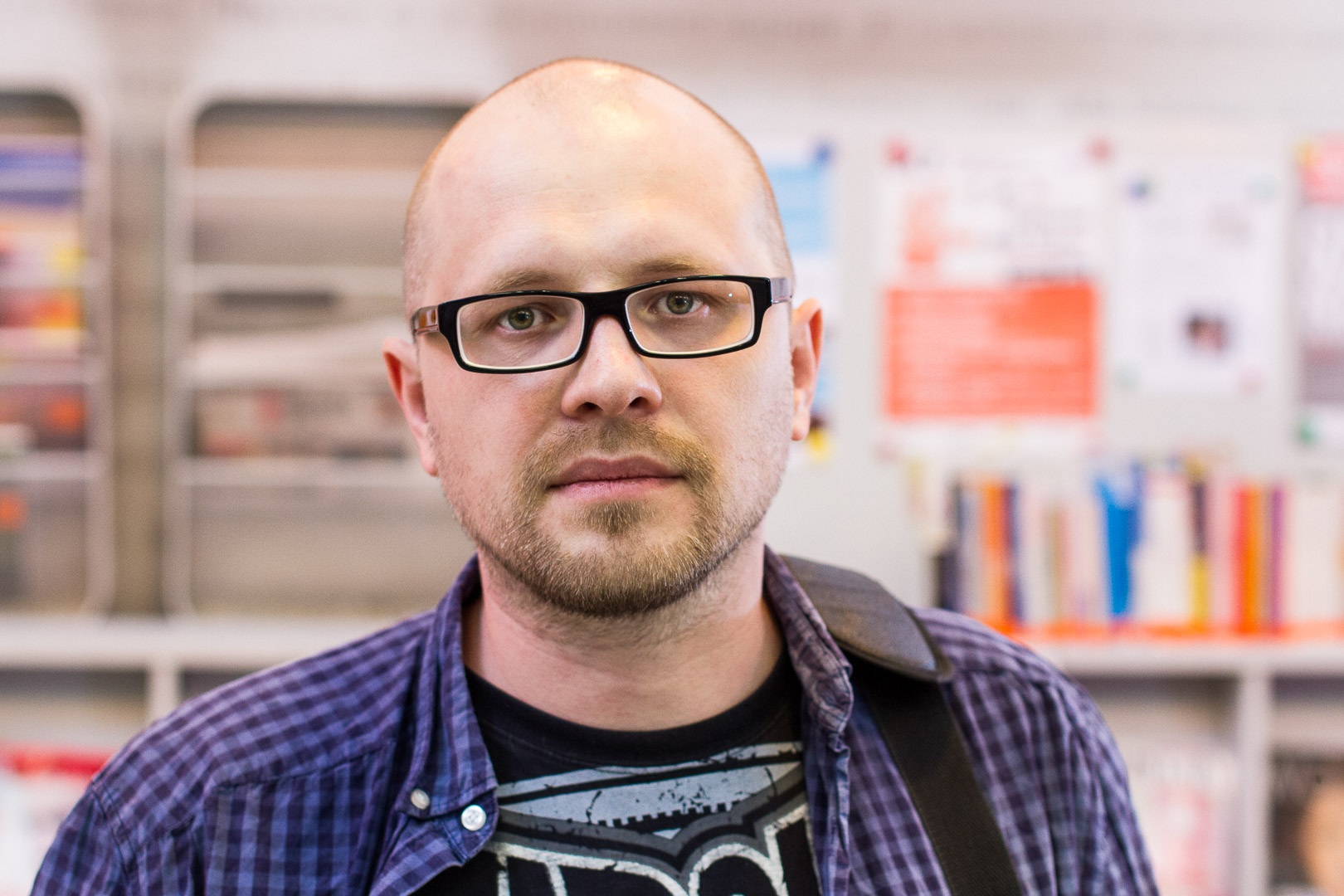 Andryi Bondar on Authors’ Reading Month 2015, Wrocław, Poland